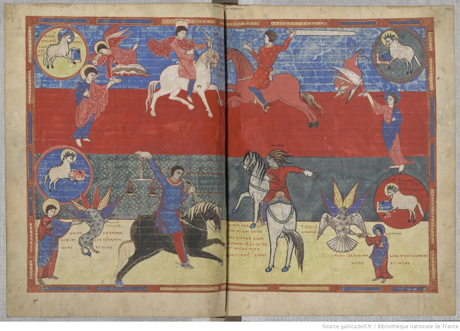 Pages 108v and 109r of the Apocalypse of St. Sever (St. Sever Beatus), The Four Horsemen of the Apocalypse.